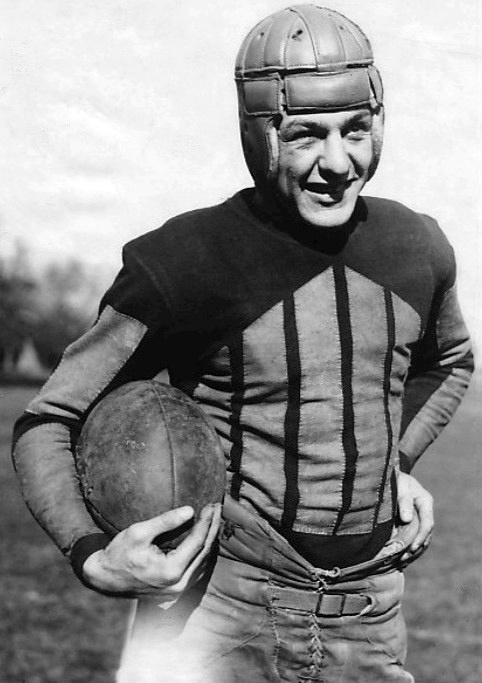 Photo of Red Grange when he was playing at University of Illinois.